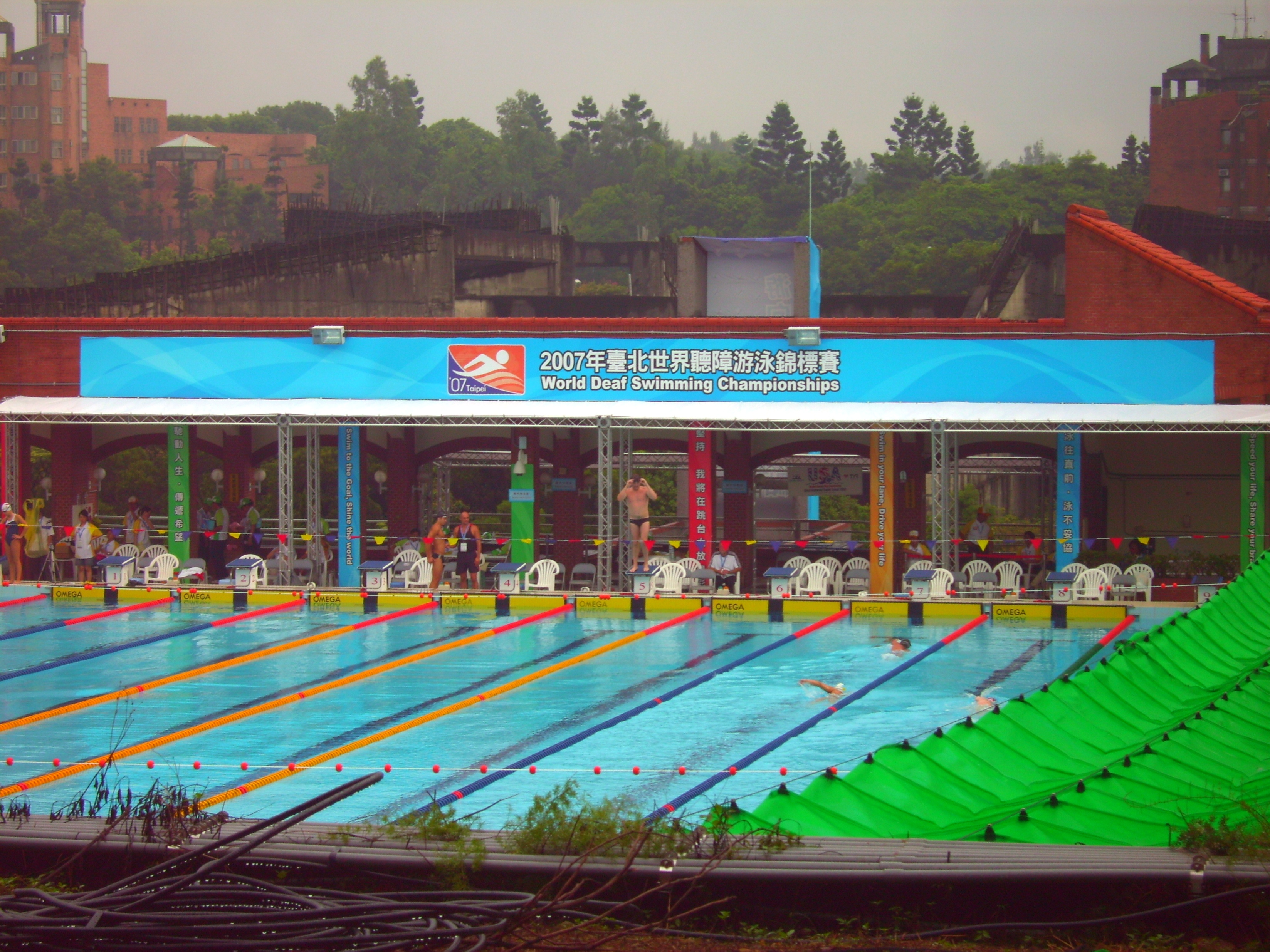 2007 World Deaf Swimming Championships: A view from Chih-chin Lake Park.